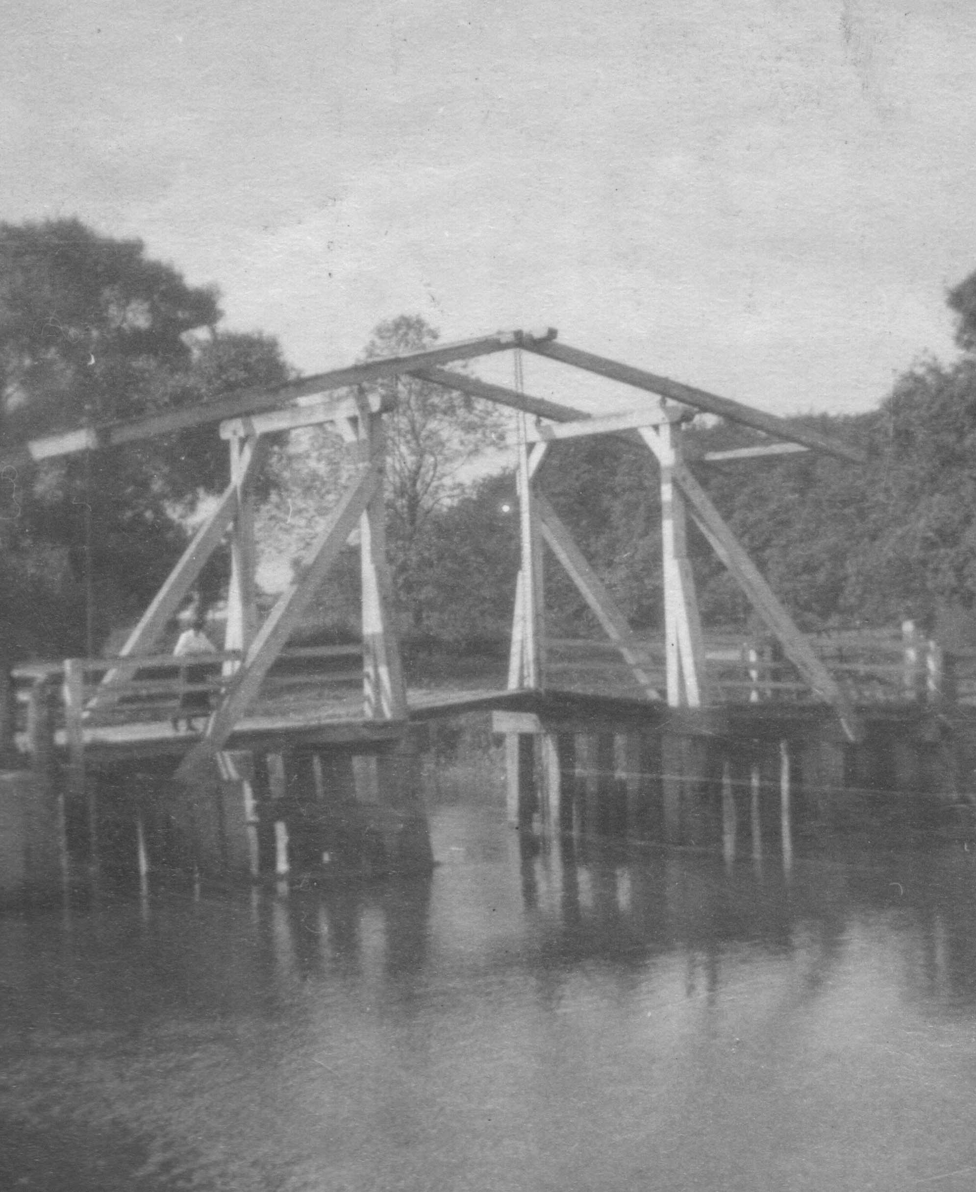 The old drawbridge crossing the River Derwent at Wheldrake Ings, York, England.